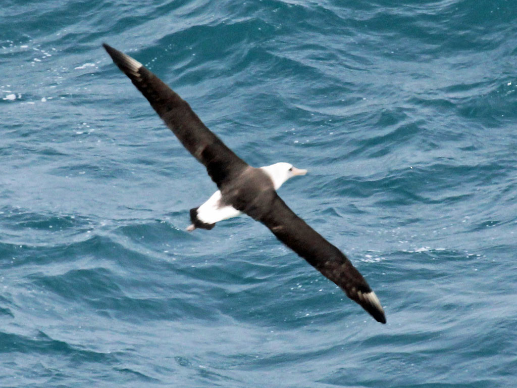 Laysan Albatross (Phoebastria immutabilis) - Kilauea Lighthouse on Kauai, Hawaii.